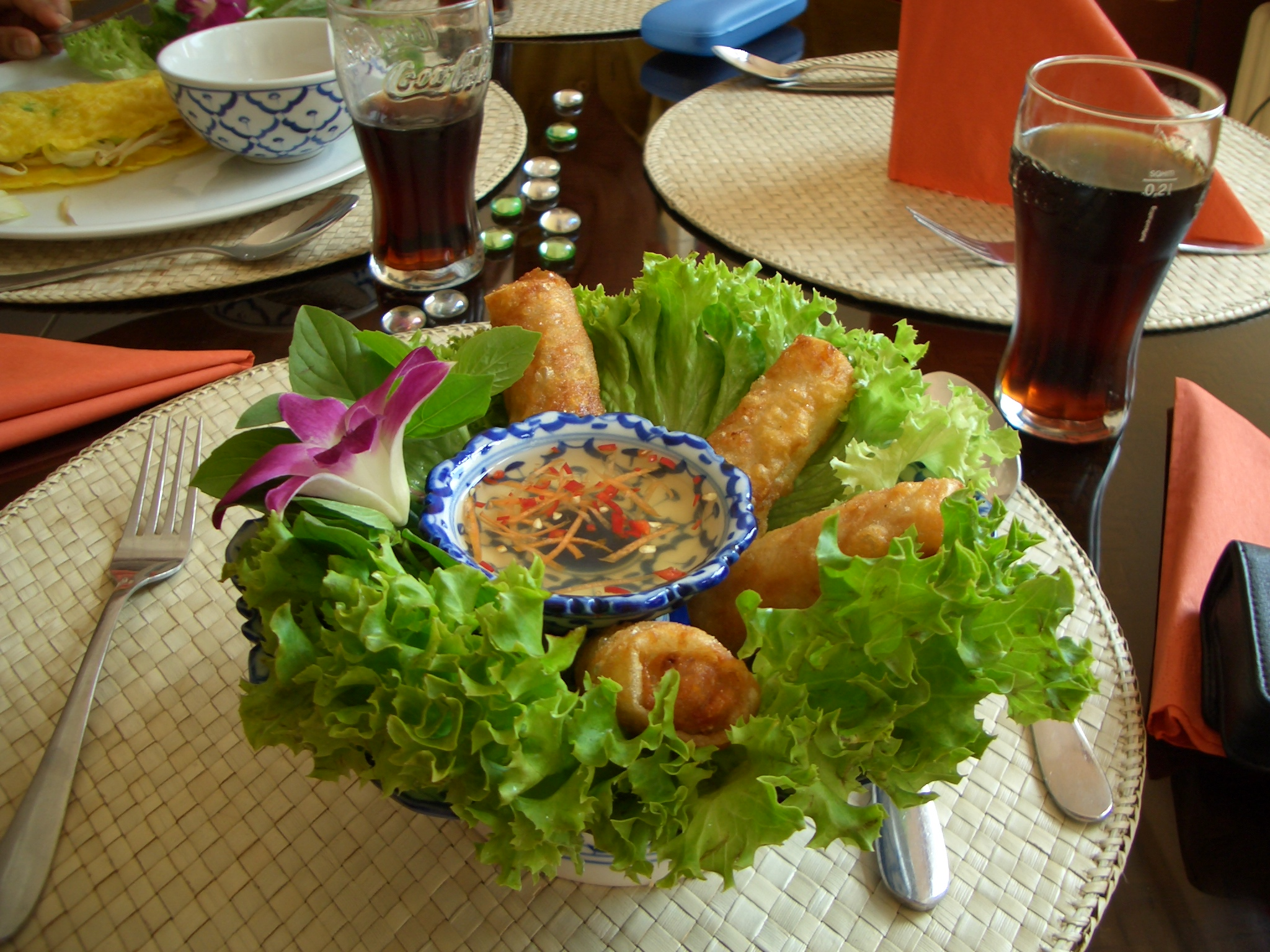 spring rolls